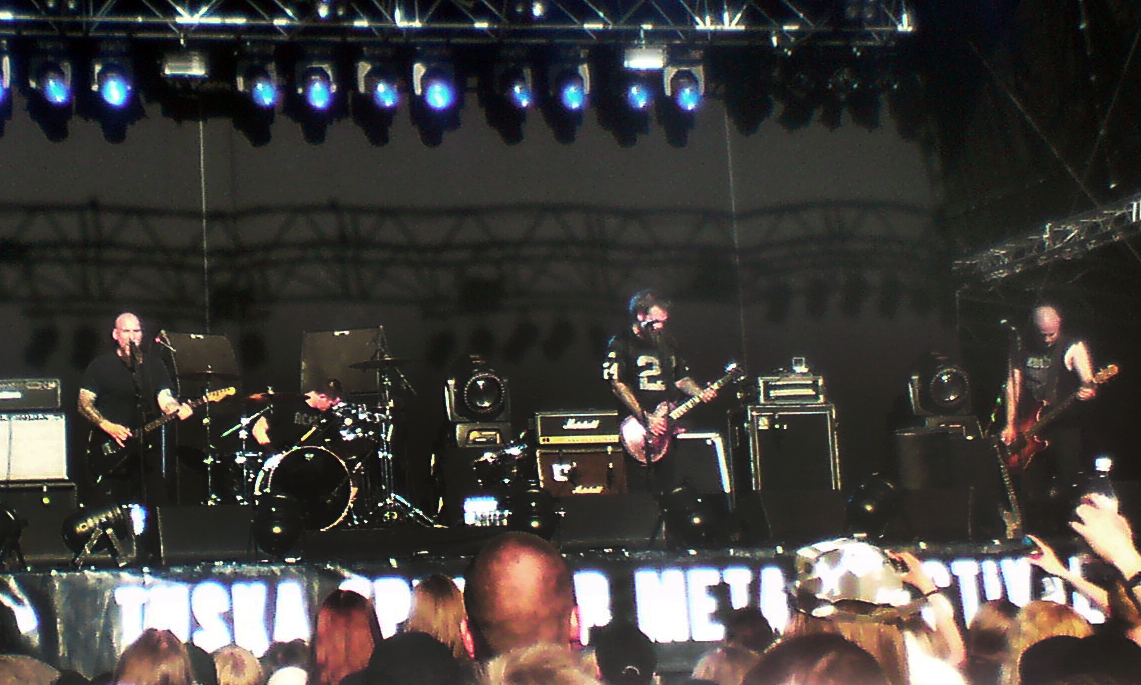 Neurosis playing at Tuska Open Air Metal Festival, Finland (2009).